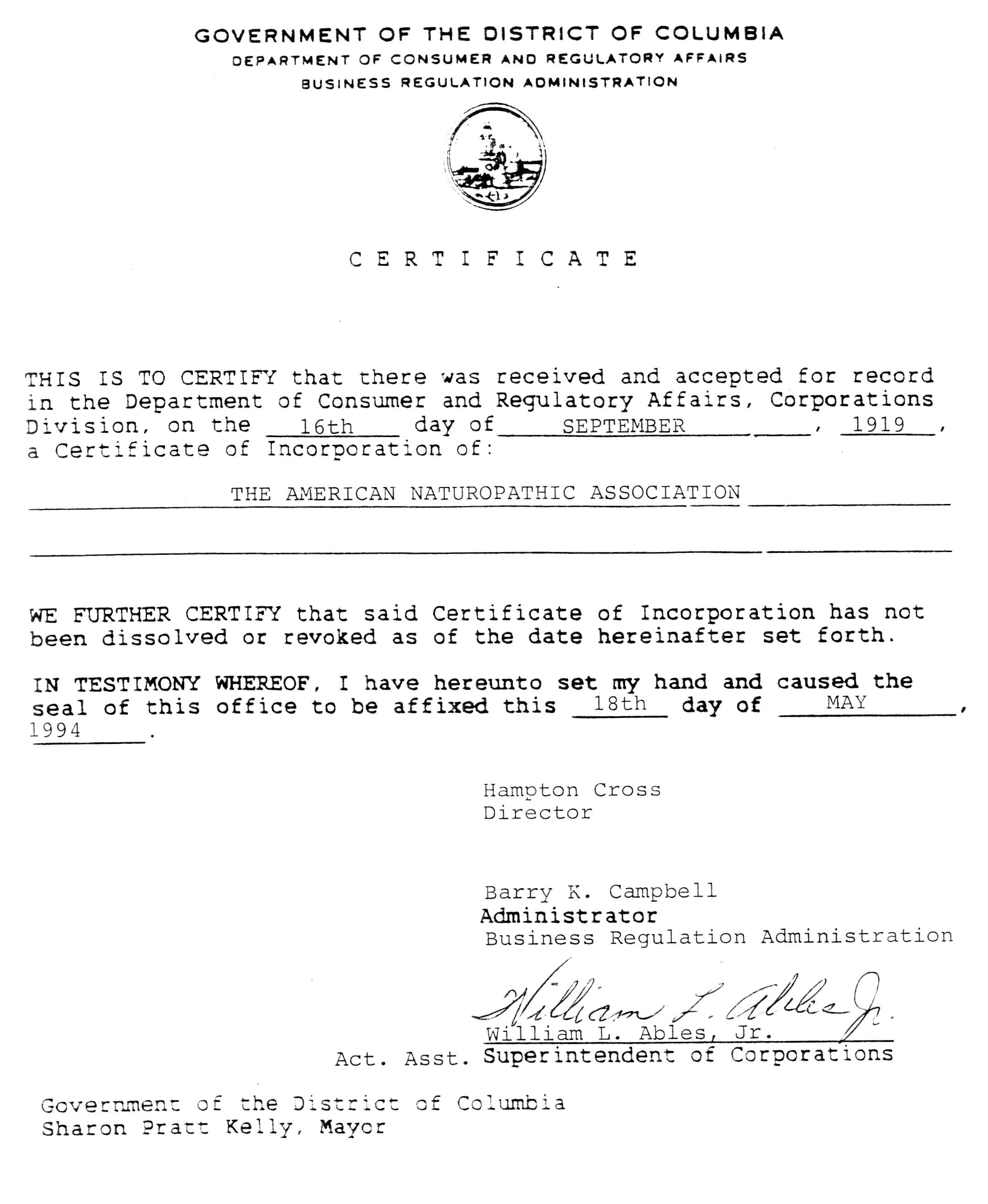 Certificate of Incorporation for American Naturopathic Association